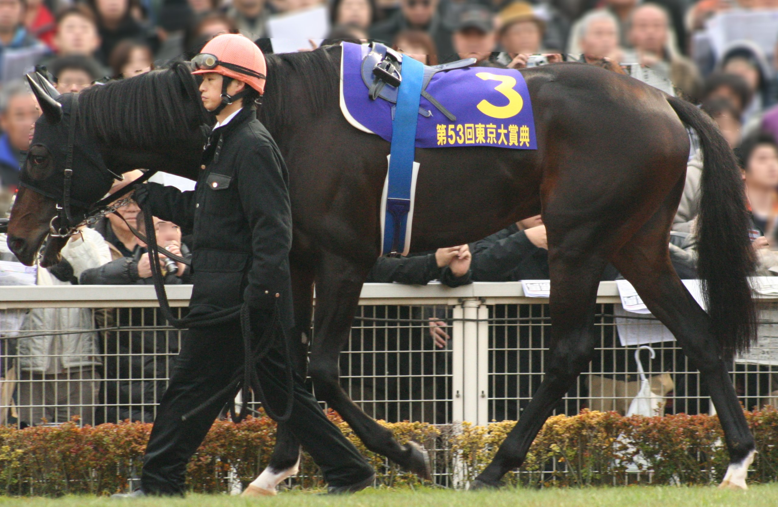 Meisho Tokon (horse)